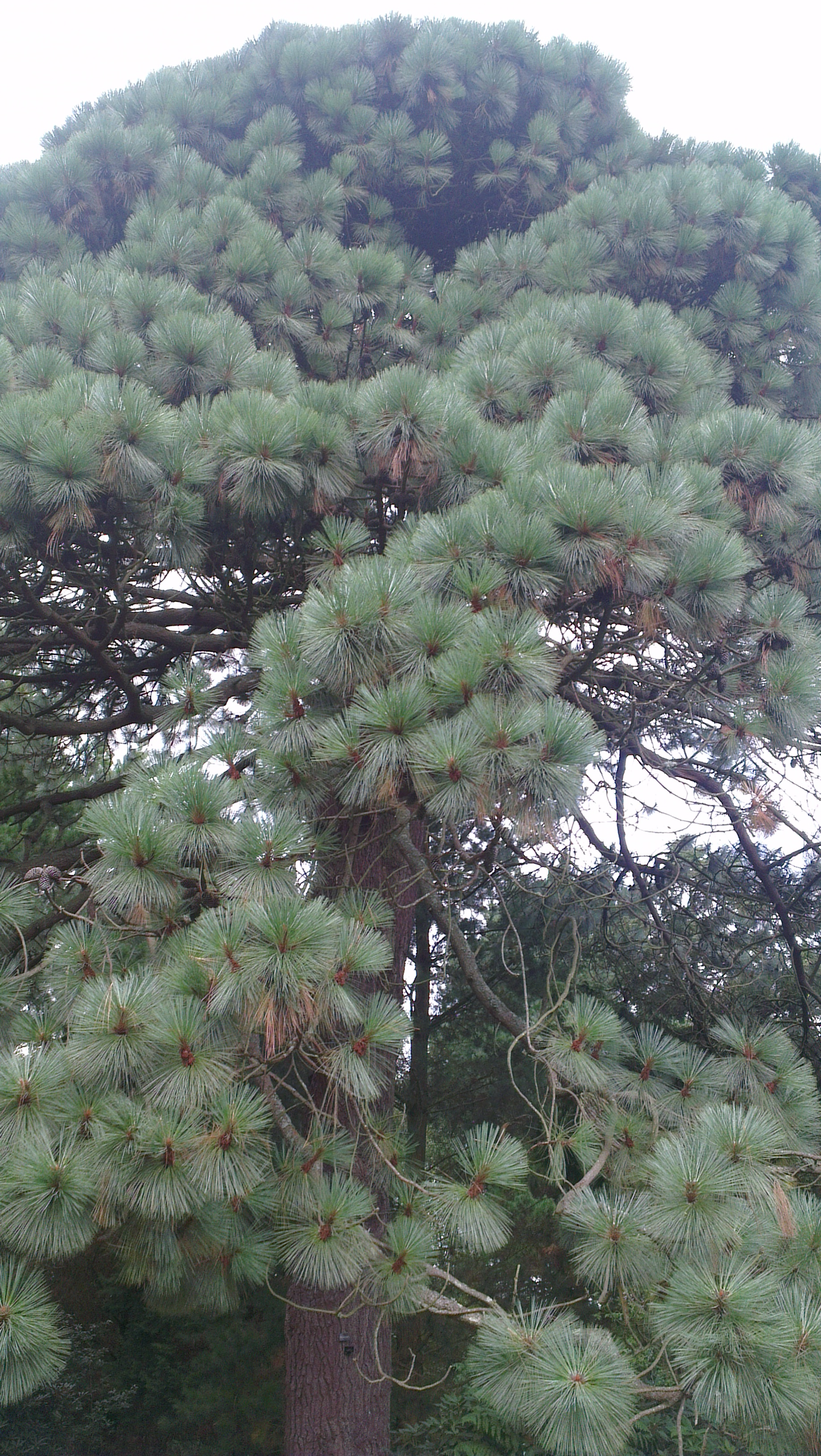 Montezuma Pine in Sheffield Park Garden